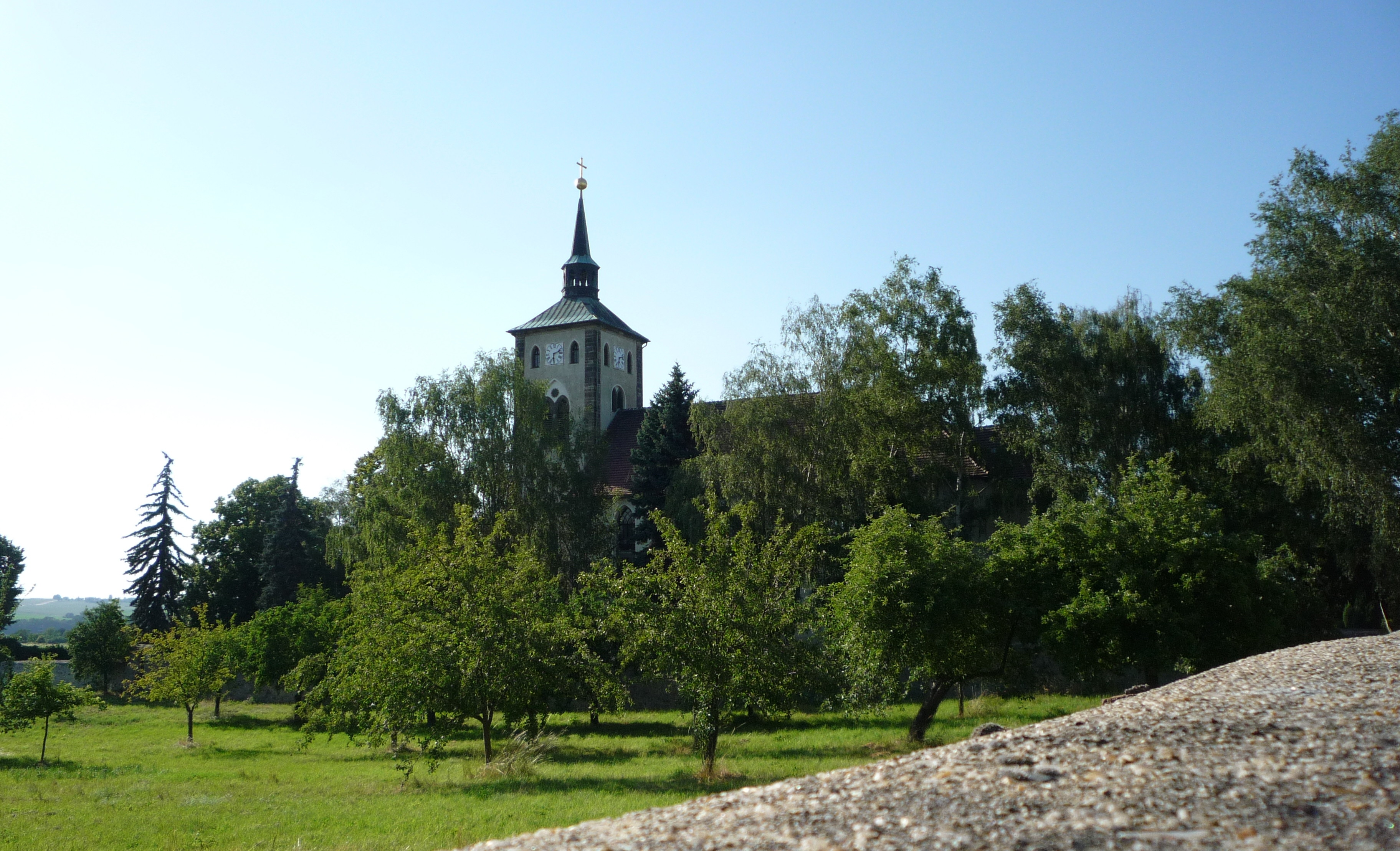 Andreas church in Zadel